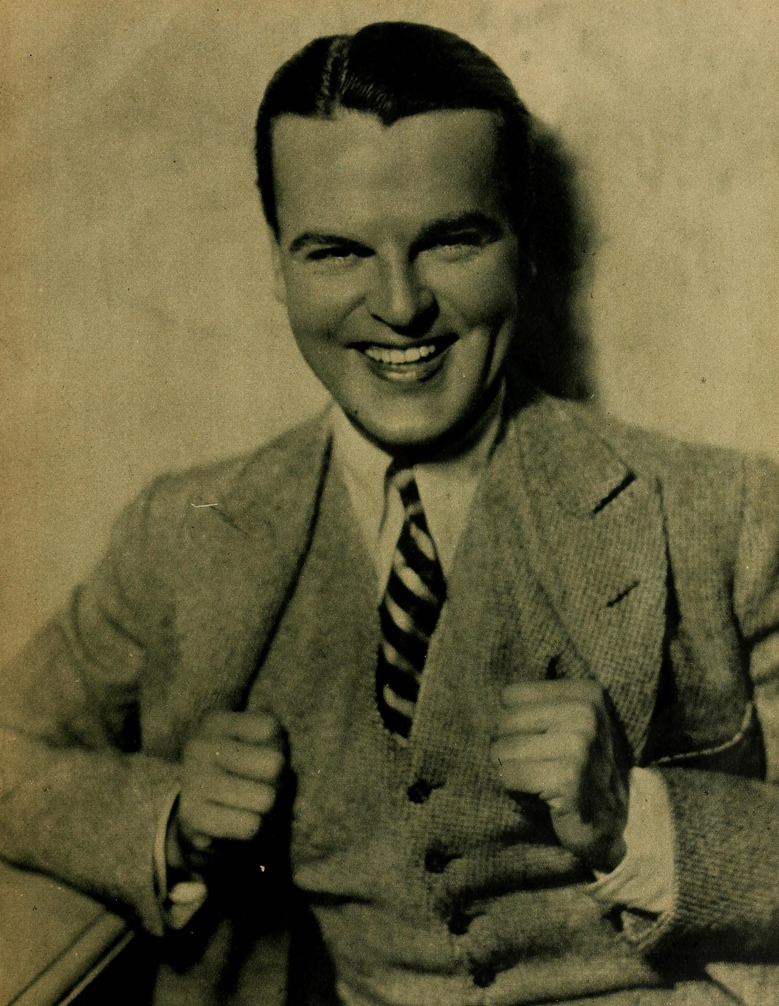 Motion Picture, August 1928